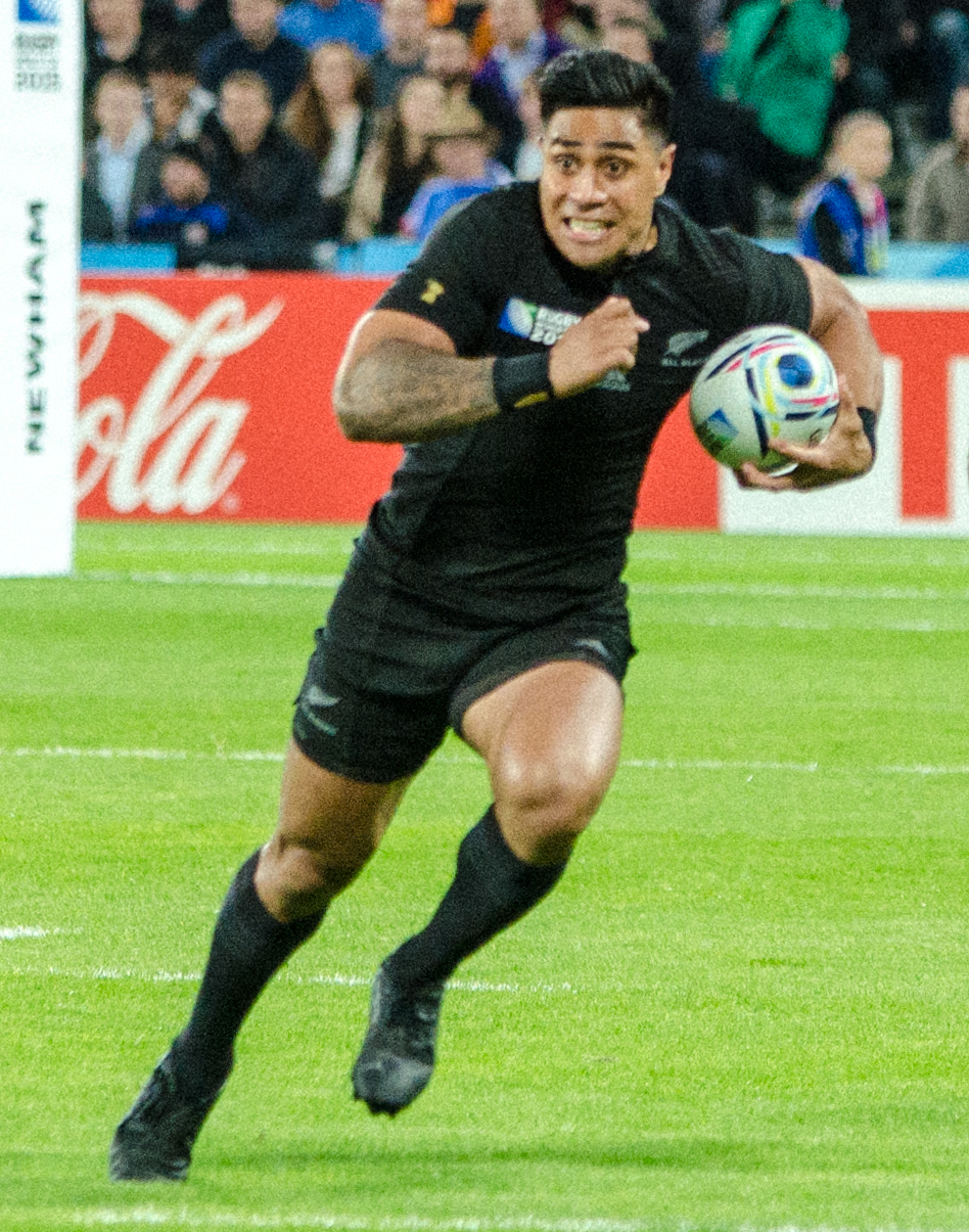 Game between New Zealand and Namibia in the 2015 Rugby World Cup at Olympic Park.